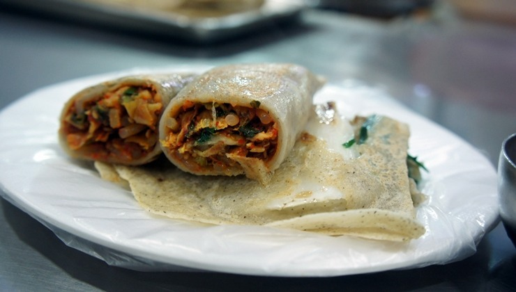 memil-jeonbyeong (buckwheat crepes)